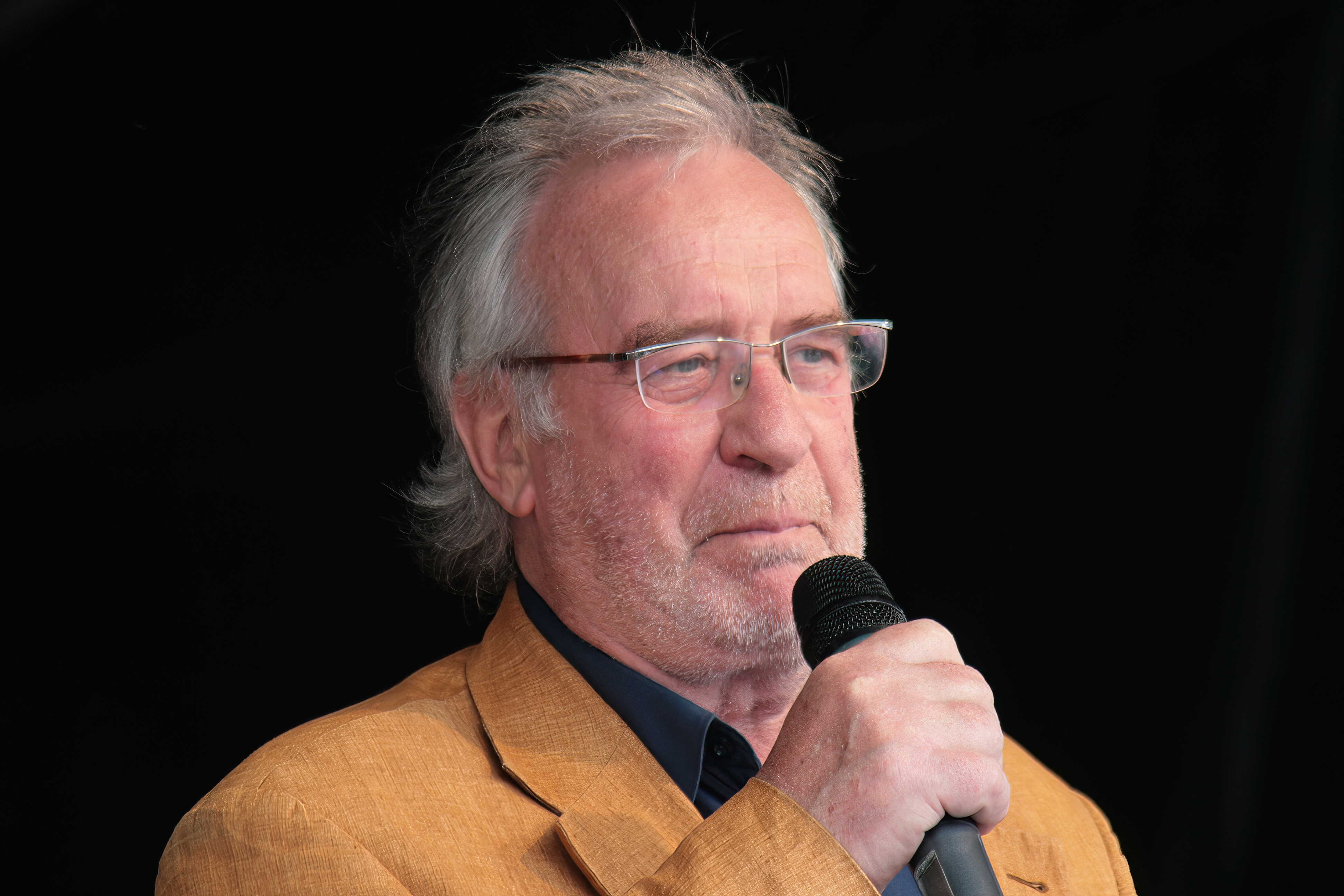 Martin Stankowski